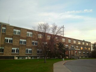 RMC at day with new cross